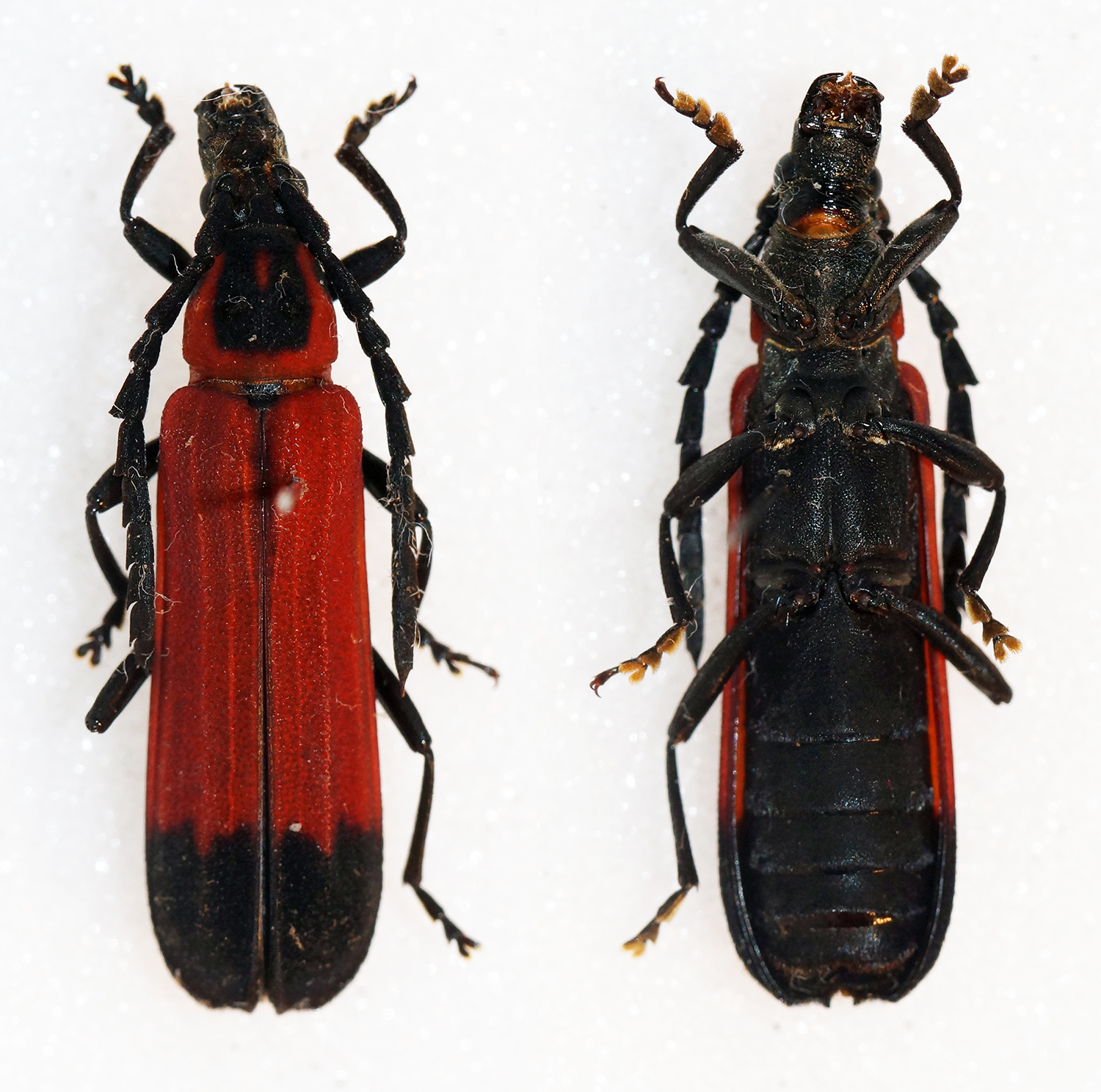 Cerambycidae